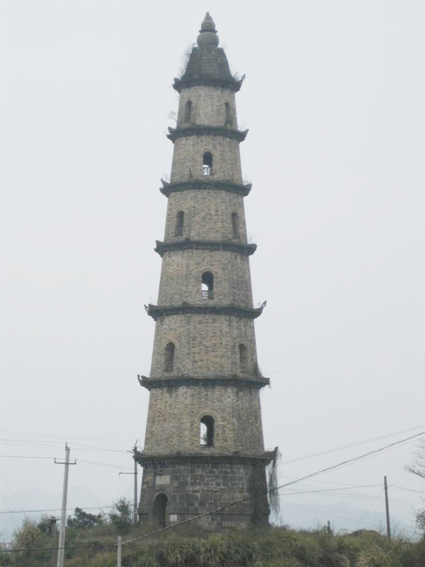 手机自拍，时间为2011年